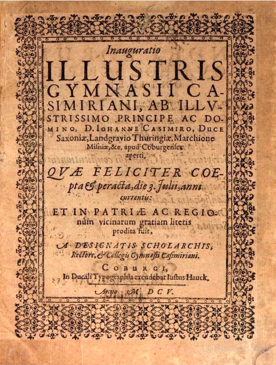 Front cover of the Inauguration program for the Casimirianum Gymnasium, dated 3 July 1604